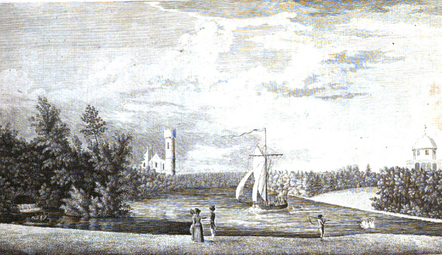 Hardwick Hall Park, Sedgefield, County Durham in 1787